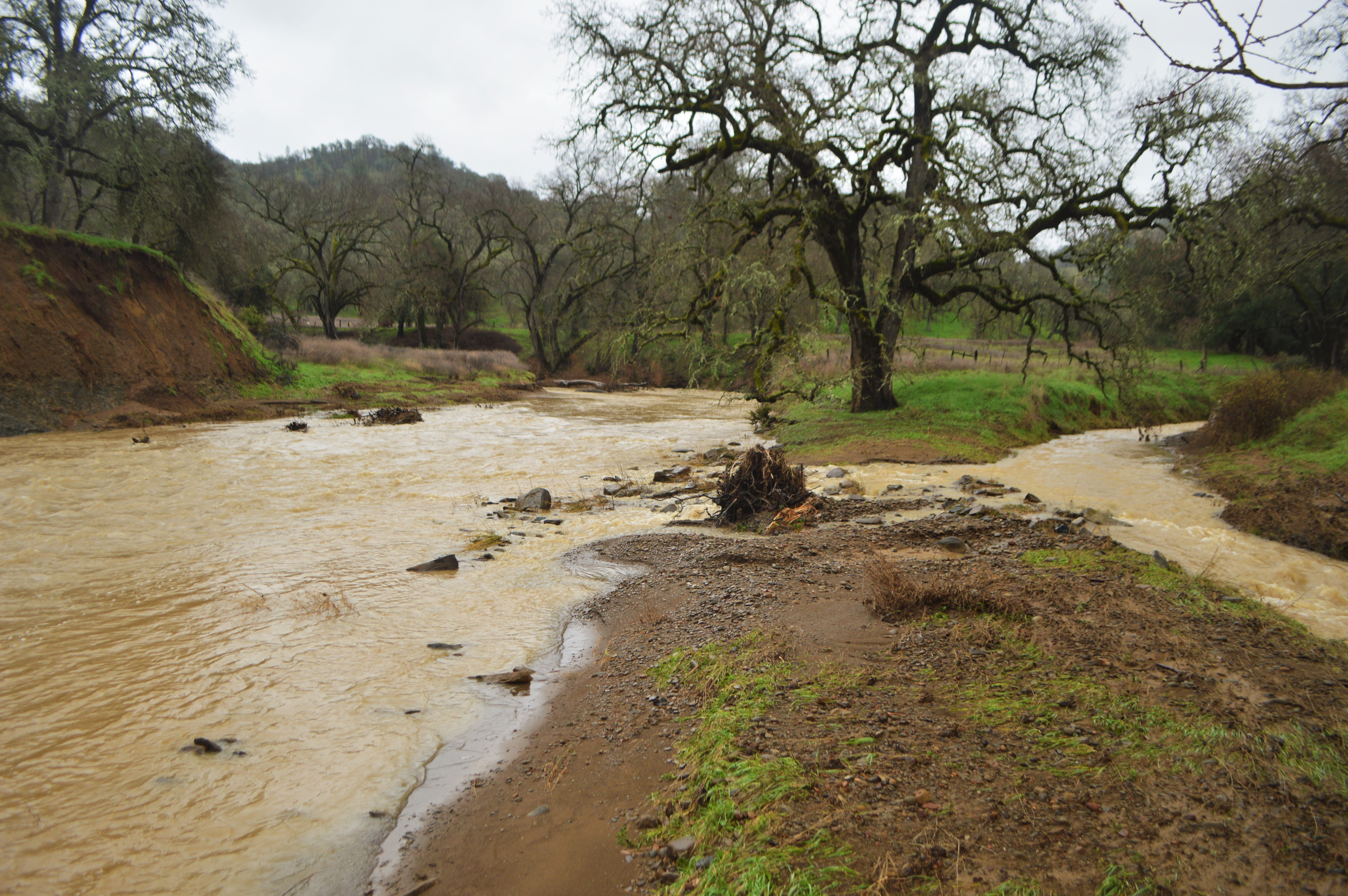 The muddy waters of Eticuera Creek after a large February storm